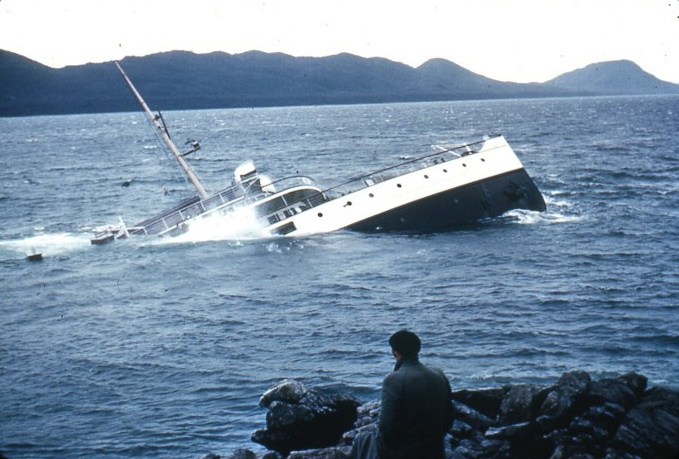 The Princess Kathleen ran aground in 1952 about 18 miles north of Juneau, Alaska. She ran aground at low tide. Everyone was rescued. As the tide came in she slipped under the surface and has become a great place for Scuba Divers to visit. My father took this picture. It is a 35mm Kodachrome slide.